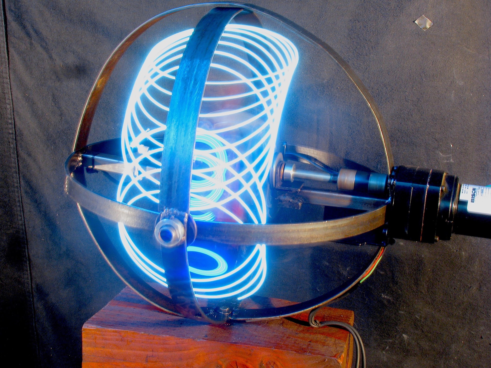 Photograph of Intention Machine Prayer Wheel robot